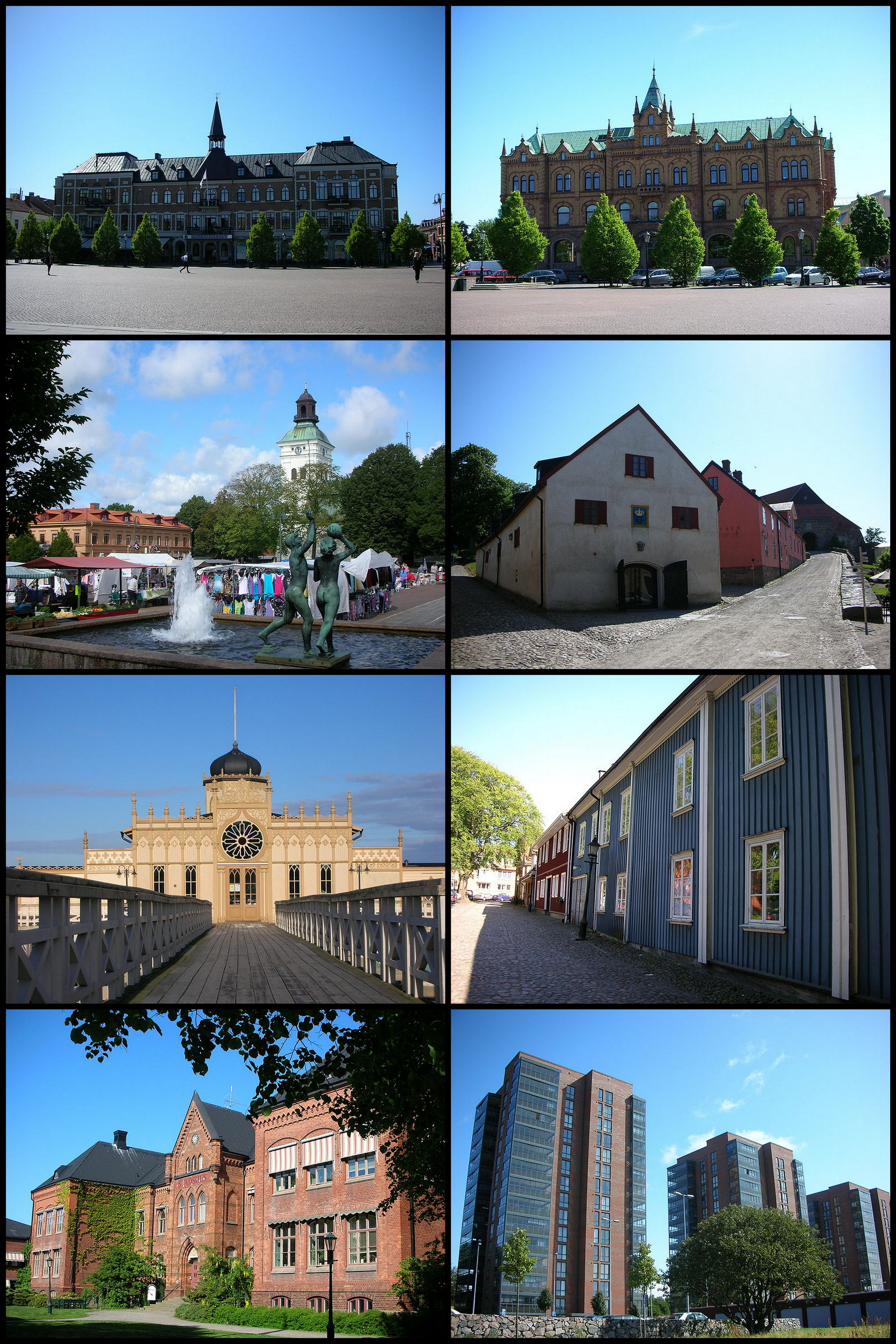 Collage of images from Varberg.